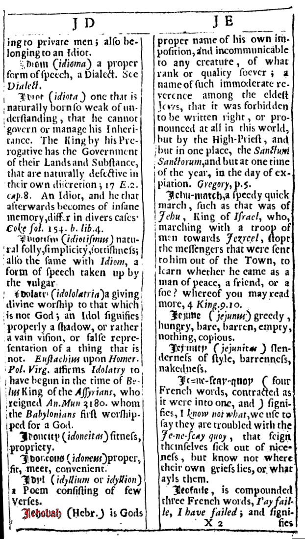 Thomas Blount, Glossographia, or, A dictionary interpreting all such hard words of whatsoever language now used in our refined English tongue (1661). Definition of the English word "Jehovah".